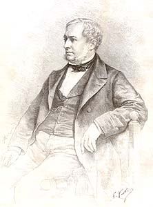 Édouard Charton (1807-1890)